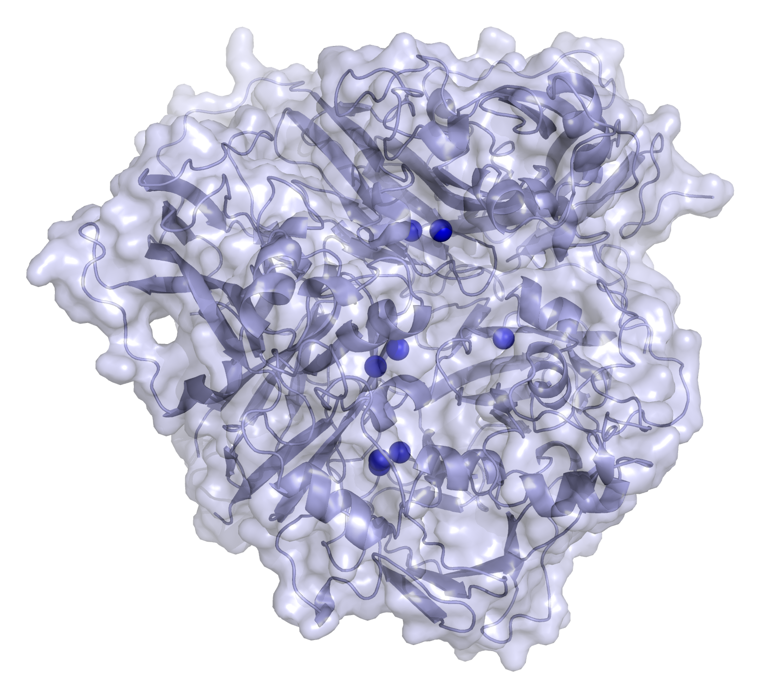 3d ribbon/surface model of ceruloplasmin (CP) with 8 copper atoms after PDB 1KCW. Ref.: Zaitseva, I., Zaitsev, V., Card, G., Moshkov, K., Bax, B., Ralph, A., Lindley, P. (1996) The X-ray structure of human serum ceruloplasmin at 3.1 angstrom: Nature of the copper centres. J.Biol.Inorg.Chem. 1: 15-23